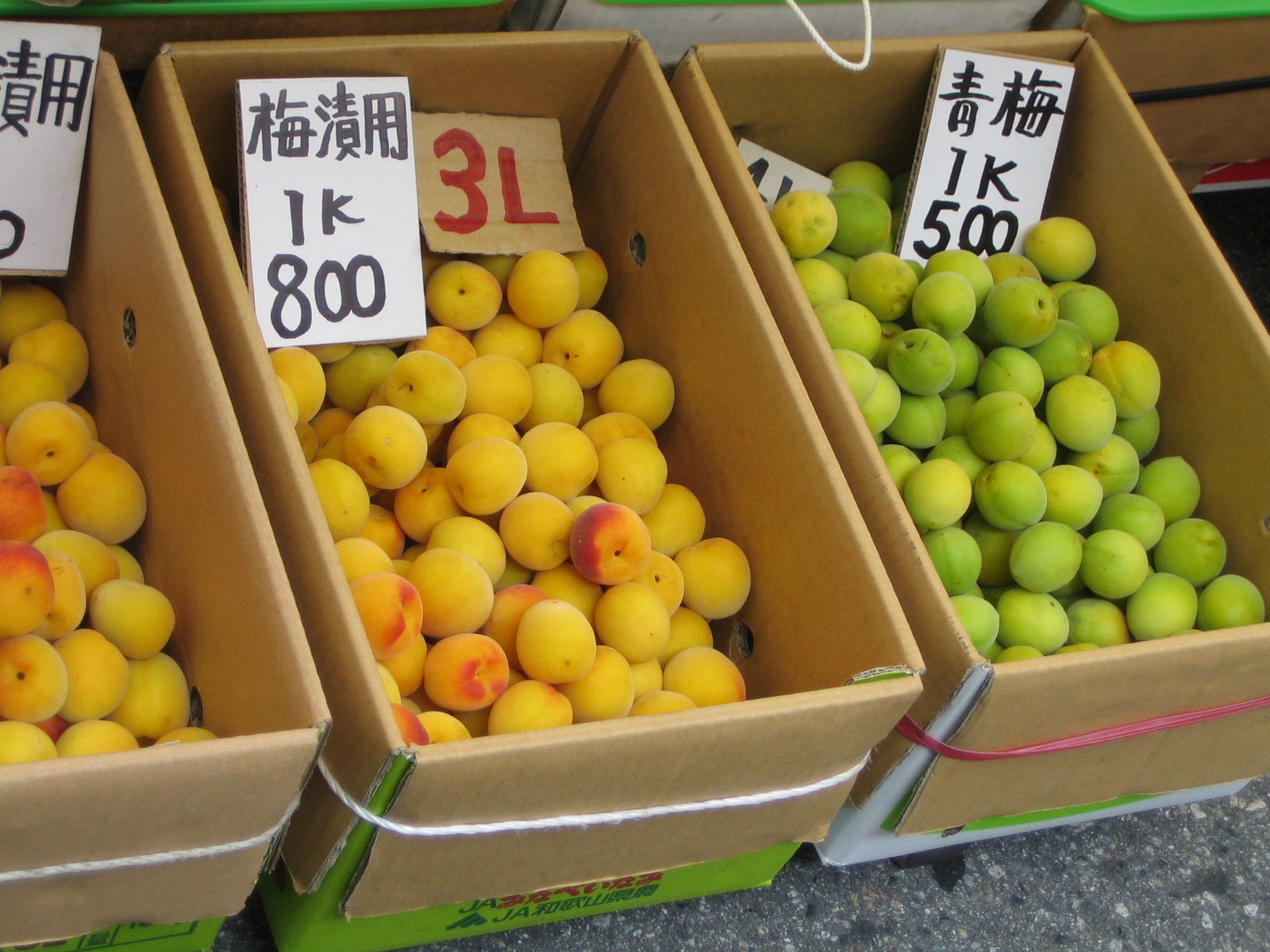 Ripe and green plums (for pickling) at the Takayama Morning Market